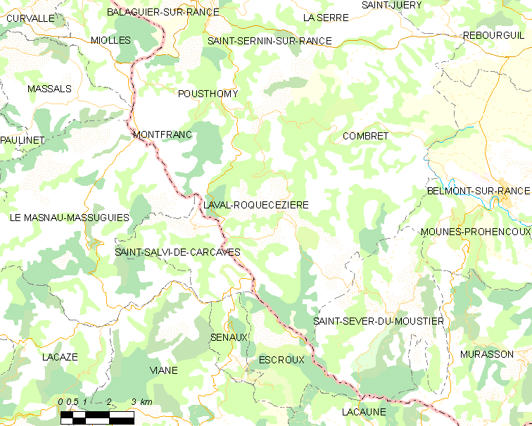 Map commune FR insee code 12125.png - Laval-Roquecezière